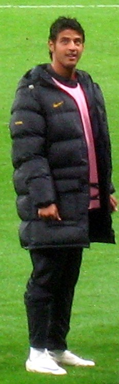 Carlos Vela